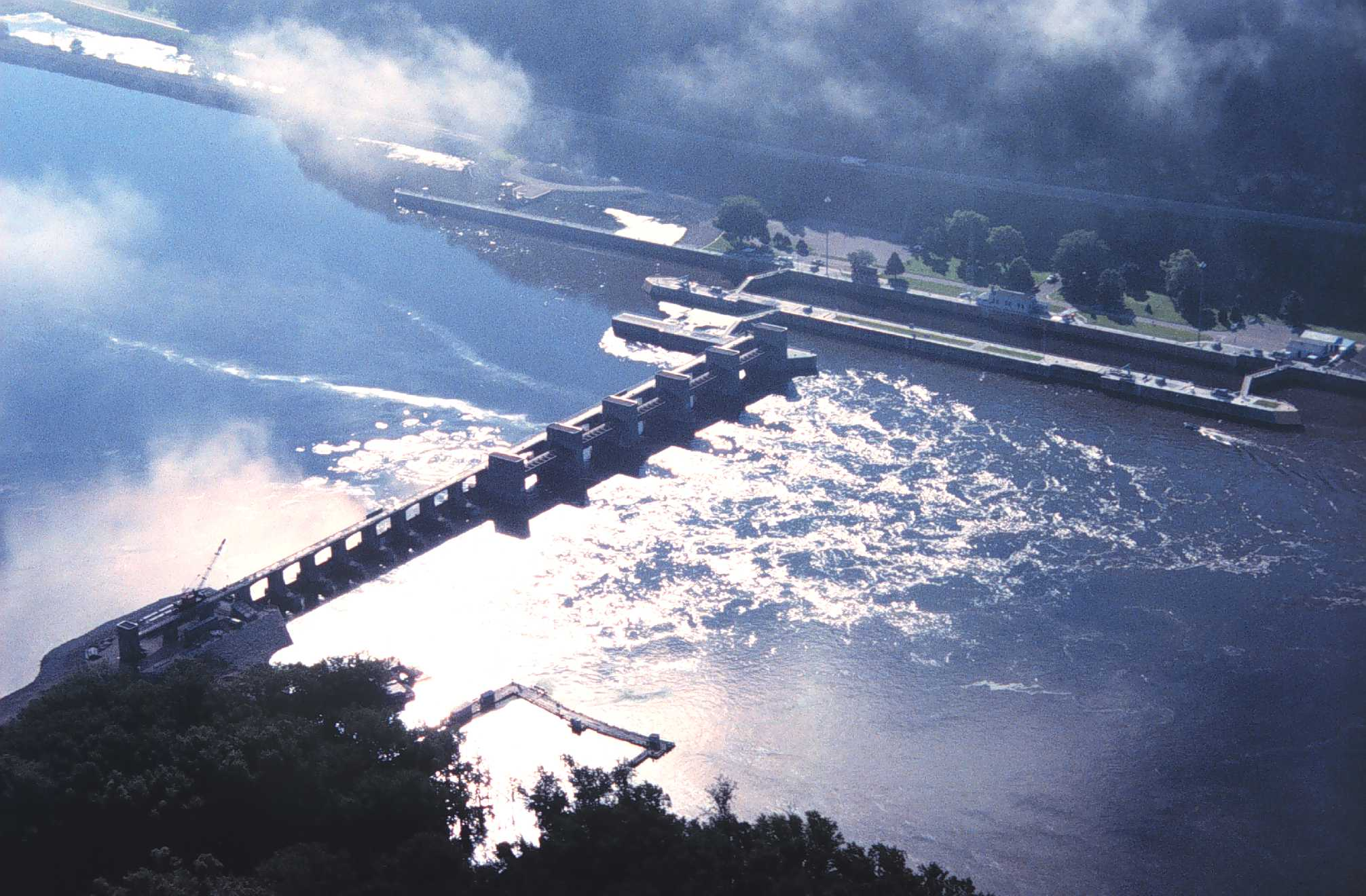 Mississippi River Lock and Dam number 9 near Harpers Ferry, Iowa